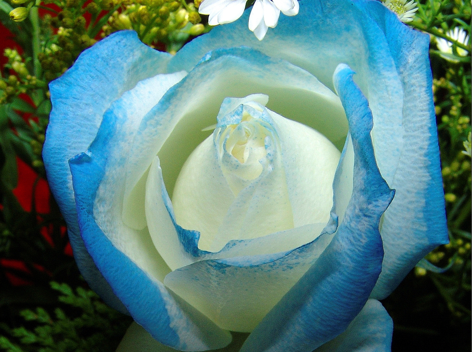 Rosa Azul - macro - Avaré, Brasil